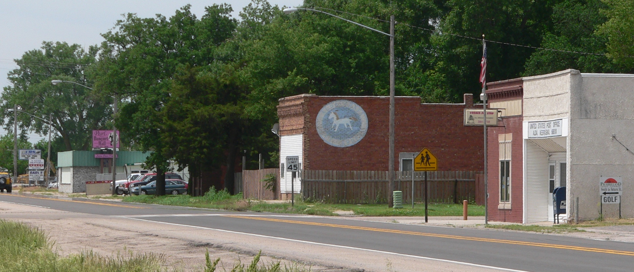 Alda, Nebraska: north side of U.S. Highway 30, looking northwest.